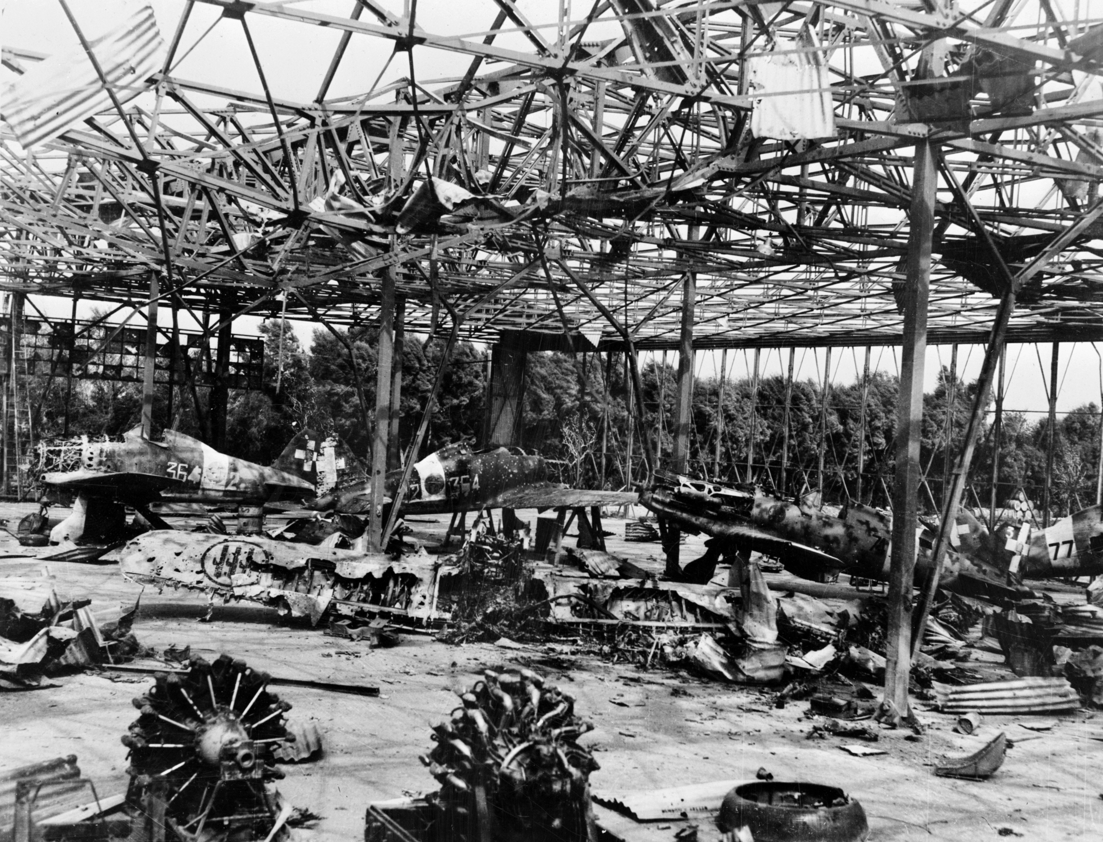 Wrecked Italian fighters in a destroyed hangar at Castel Benito airdrome, Tripolis, Libya, in early 1943. Visible are three Macchi MC.200 Saetta figthers and a single MC.202 Folgore (2nd plane from the right).Original caption: "Enemy air equipment and installations took a heavy pounding from bombers of the United States Army Air Forces as they pursued Marshal Erwin Rommel's retreating Afrika Korps through Libya and Tripoli to the Tunisian coast. This was once a hangar at Castel Benito Airdrome."